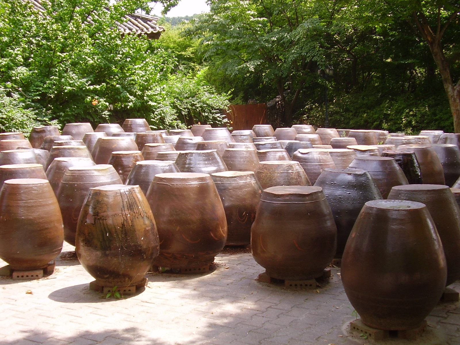 Jars used typically for fermenting Kimchi, Soybeans etc. These jars are also used for storing grains.